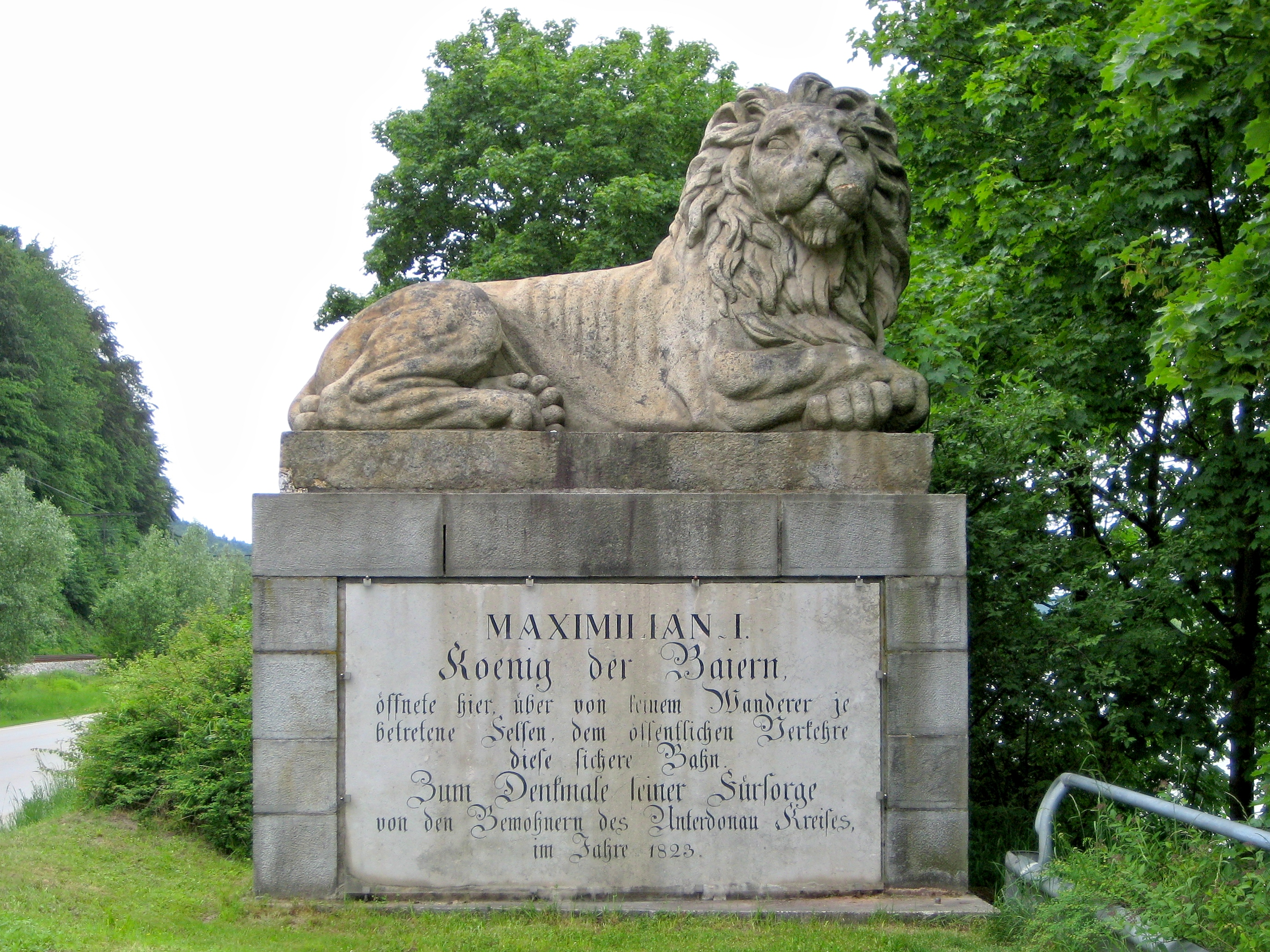 Monument at the rock face “Löwenwand” near Passau This is a photograph of an architectural monument.